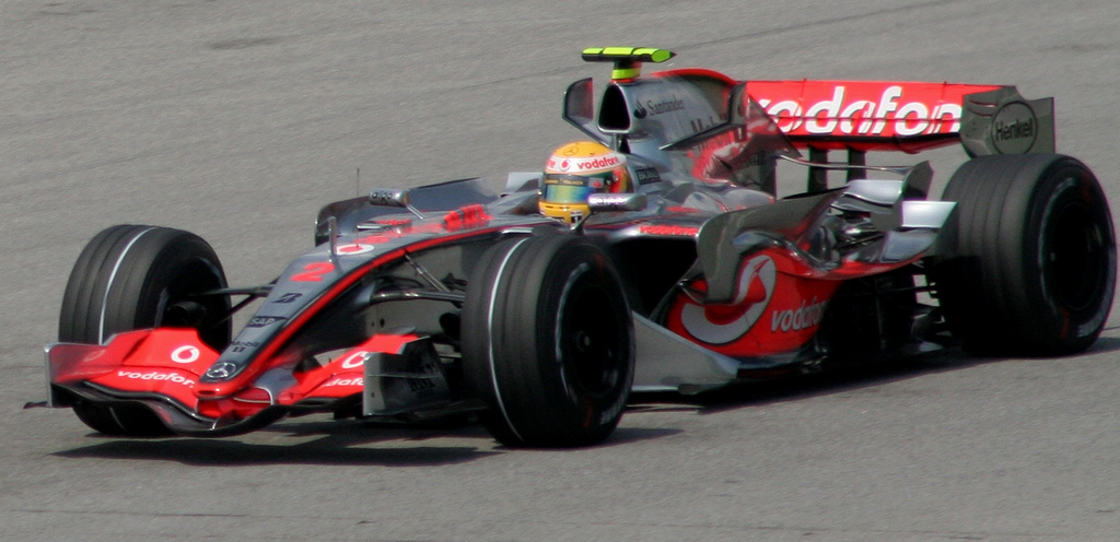 Lewis Hamilton driving for McLaren at the 2007 Malaysian Grand Prix.